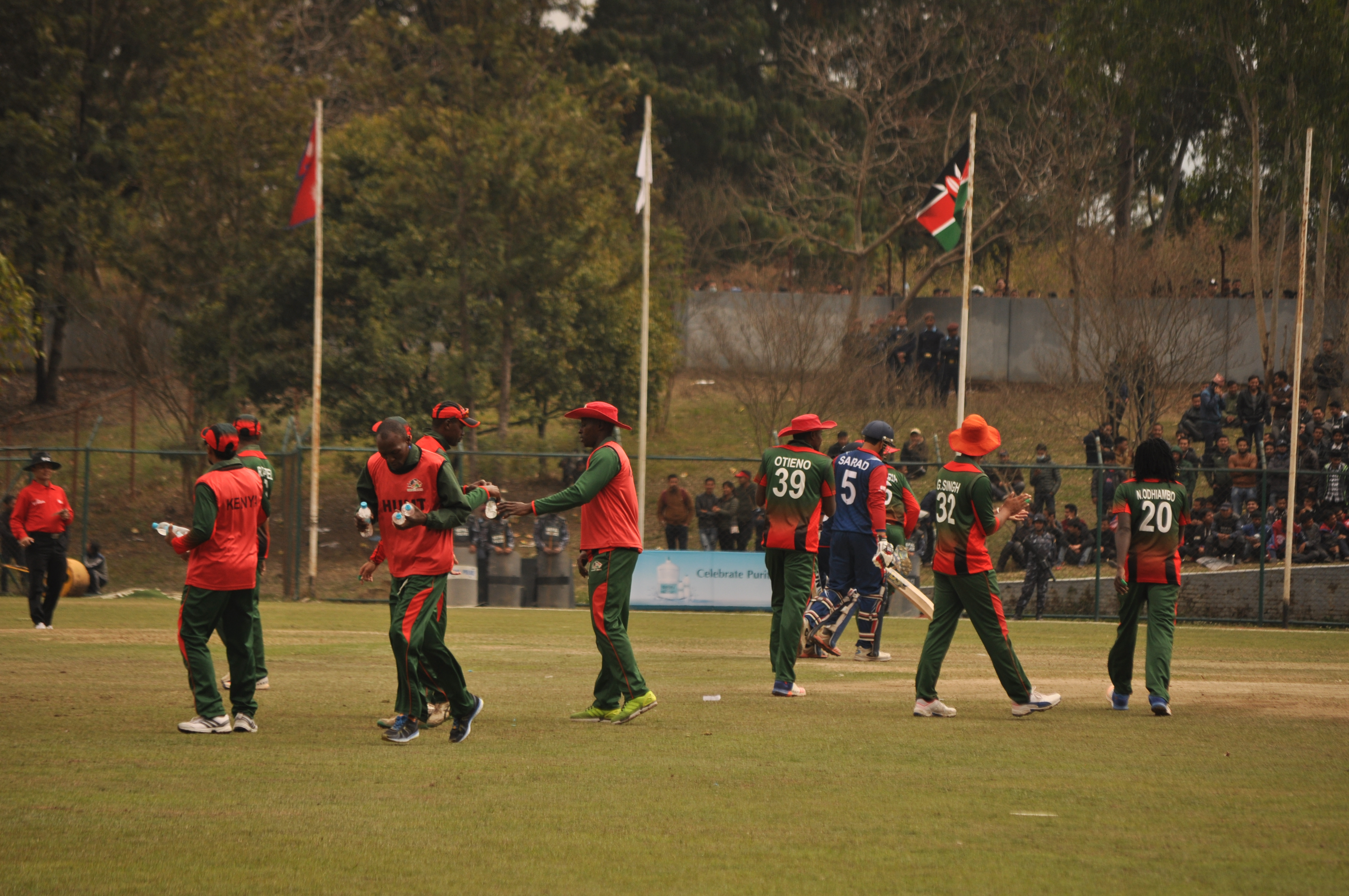 Cricket Match Nepal Vs Kenya 2017/03/13 नेपाली: अाइ सि सि विश्व क्रिकेट लिग अन्तर्गत नेपाल र केन्या बिचकाे खेल- २०७३/११/३०